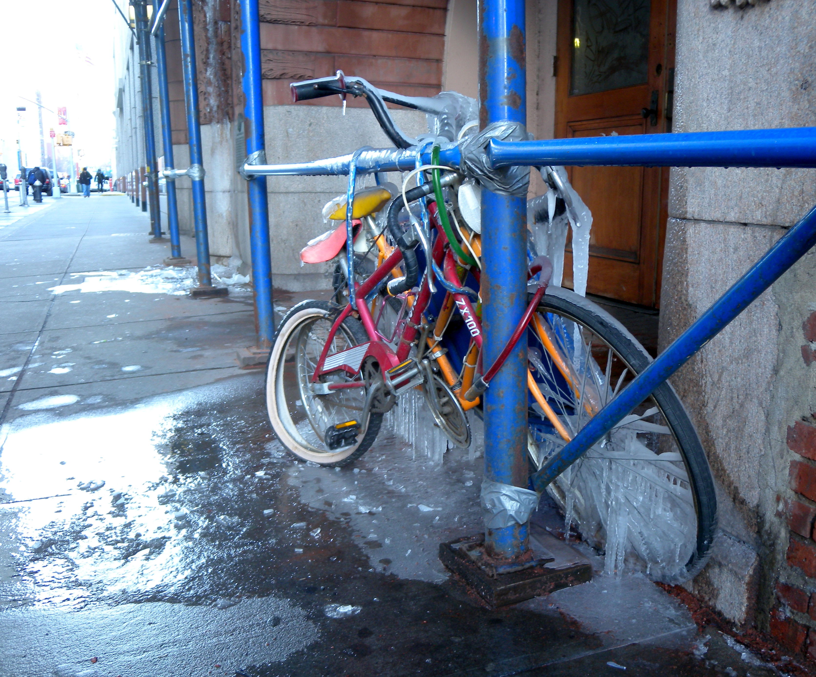 Looking northeast at bikes frozen in place in front of the former BFD HQ on Jay Street.